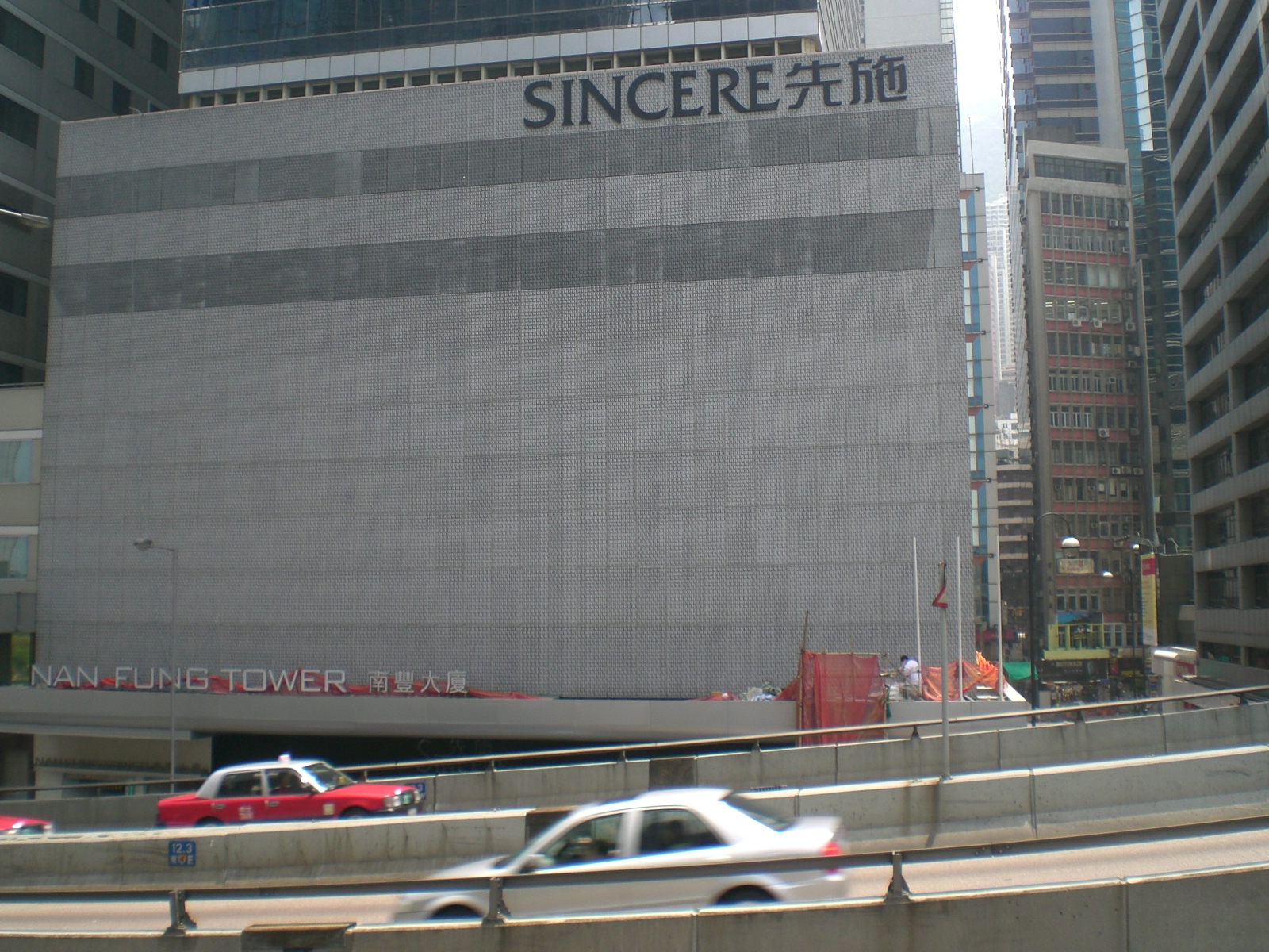 中環zh:干諾道中 - 南豐大廈 中西區 Photographer is User:SeaLai Ho